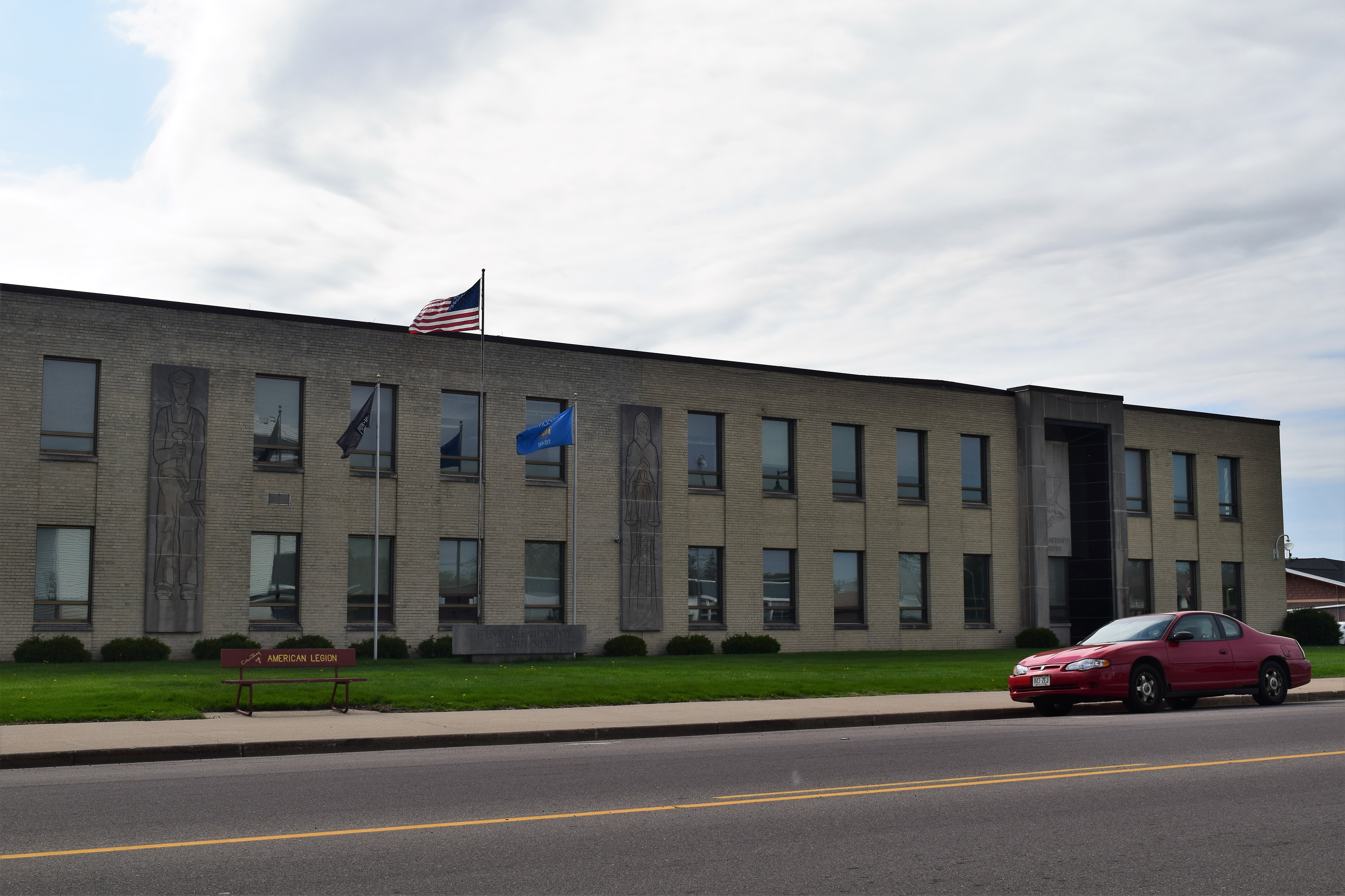 The Trempealeau County Courthouse in Whitehall, Wisconsin. The courthouse is the county courthouse for Trempealeau County.